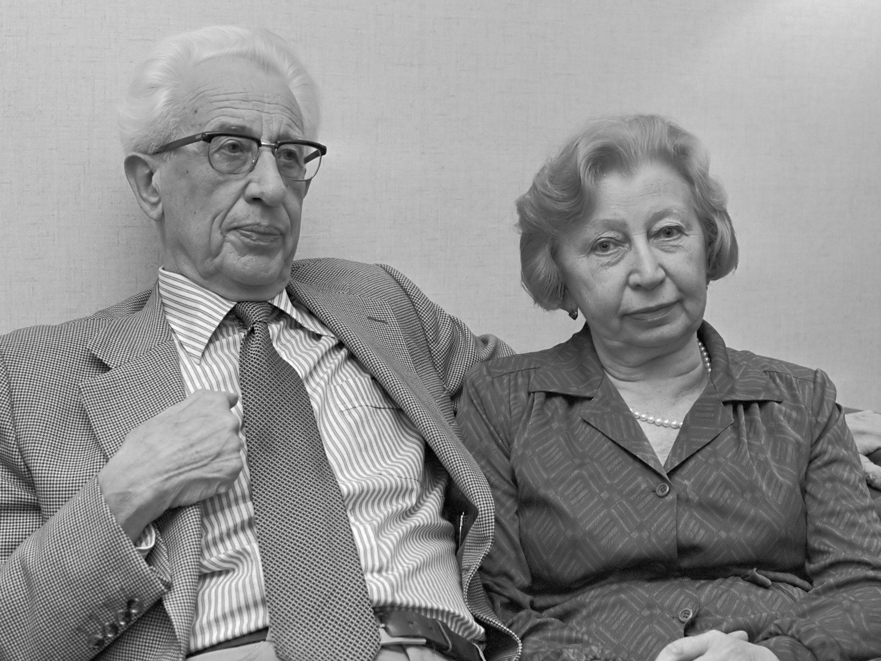 Opdracht GPD, mevrouw Gies (Miep uit dagboek van Anne Frank) en haar echtgenoot 8 oktober 1980